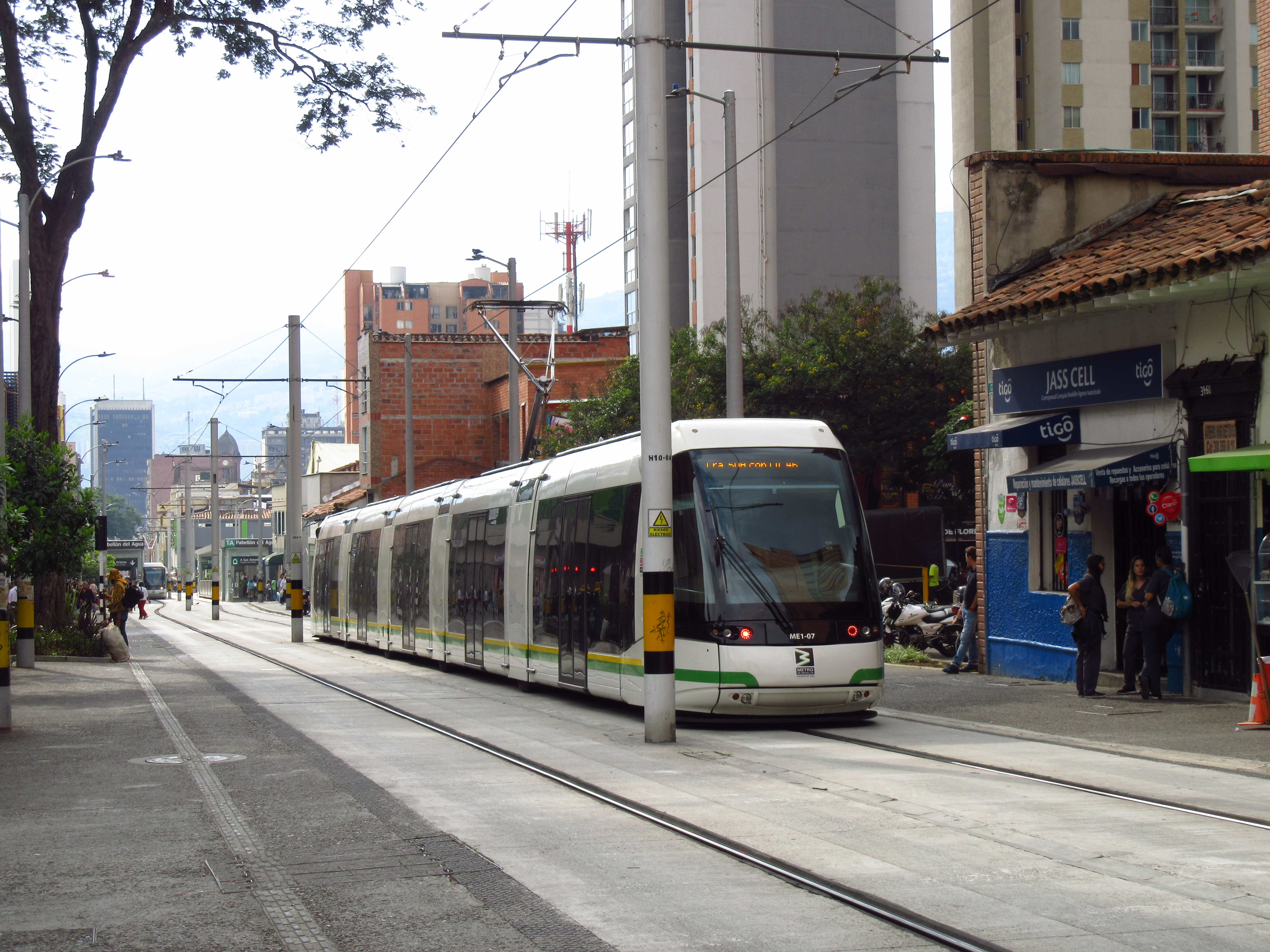 Medellín